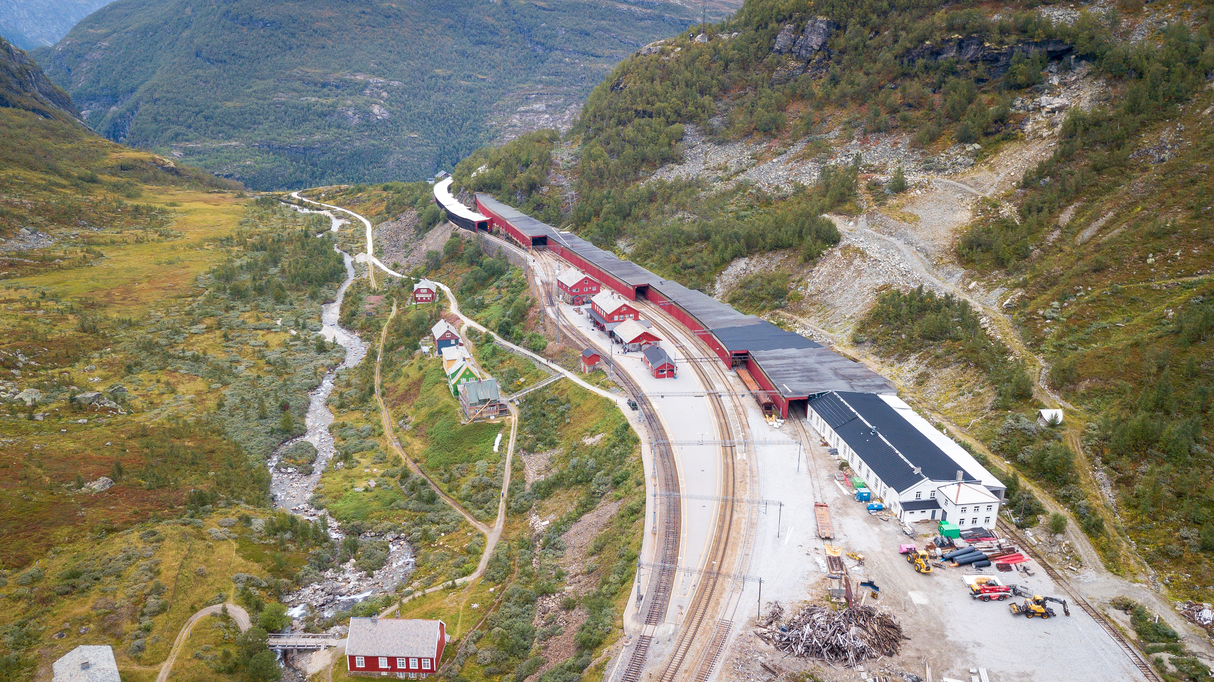 Myrdal on the Bergen railway. Terminus for the Flåm railway and station on the Bergen railway.